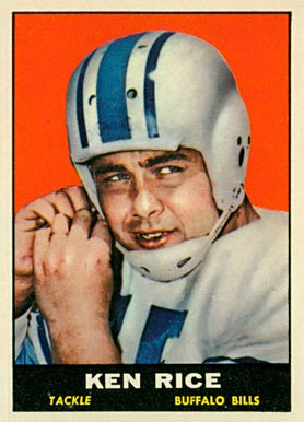 Ken Rice on a 1961 Topps football card